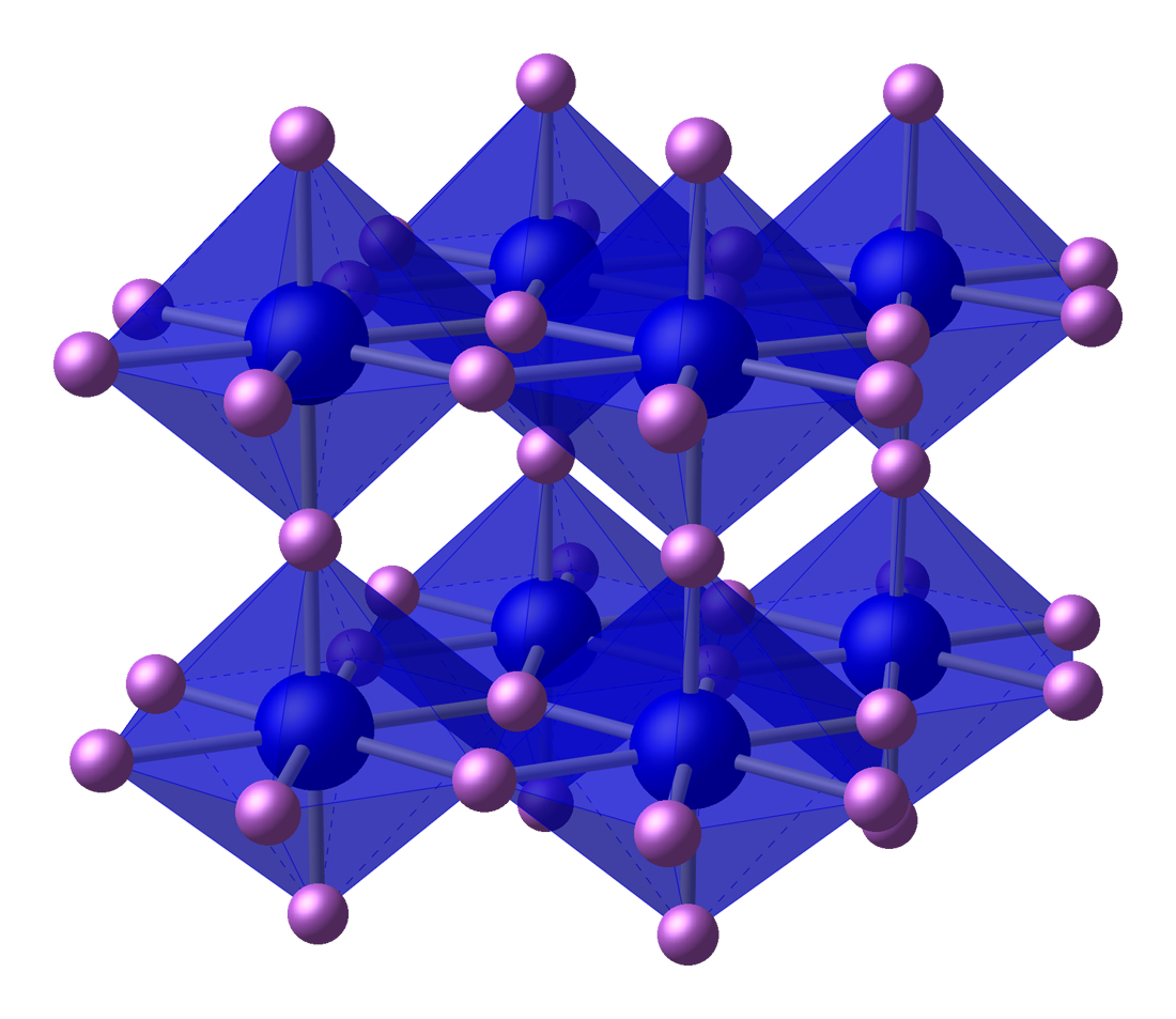 Ball-and-stick and polyhedral model of part of the crystal structure of lithium nitride, Li3N. Neutron diffraction data from Duncan H. Gregory, Paul M. O'Meara, Alexandra G. Gordon, Jason P. Hodges, Simine Short, and James D. Jorgensen (2002). "Structure of Lithium Nitride and Transition-Metal-Doped Derivatives, Li3−x−yMxN (M = Ni, Cu): A Powder Neutron Diffraction Study". Chem. Mater. 14 (5): 2063-2070. Image generated in CrystalMaker 8.1.